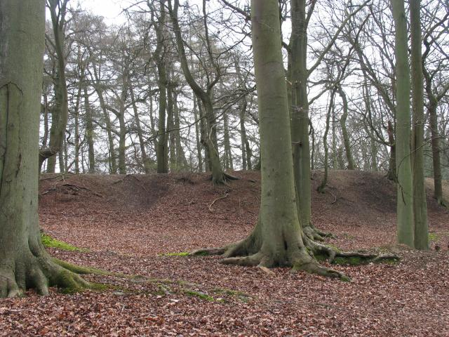 Grimsbury Castle: Iron Age Hill Fort. This is situated in the western section of the grid square and is a view of the eastern side of the hill fort.